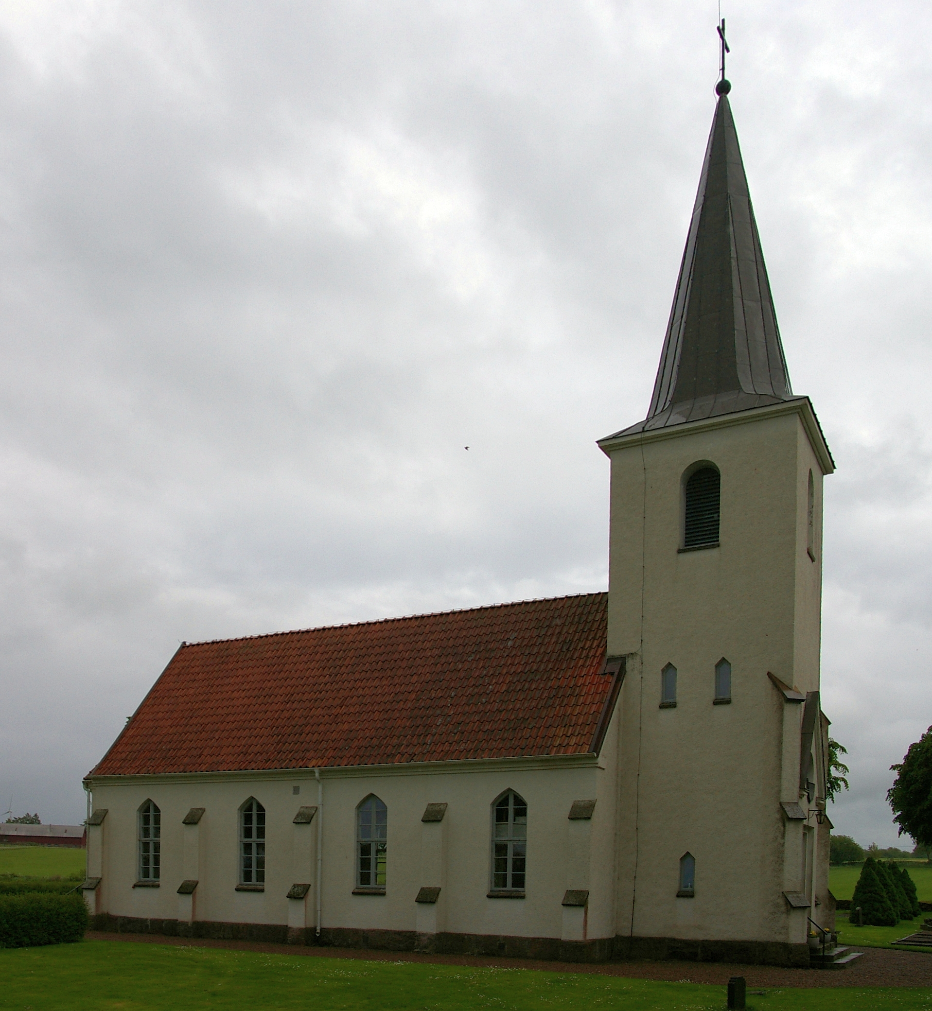 Östra Tunhems kyrka (swedish:Church of Östra Tunhem) in Västergötland, Sweden. Built in 1949